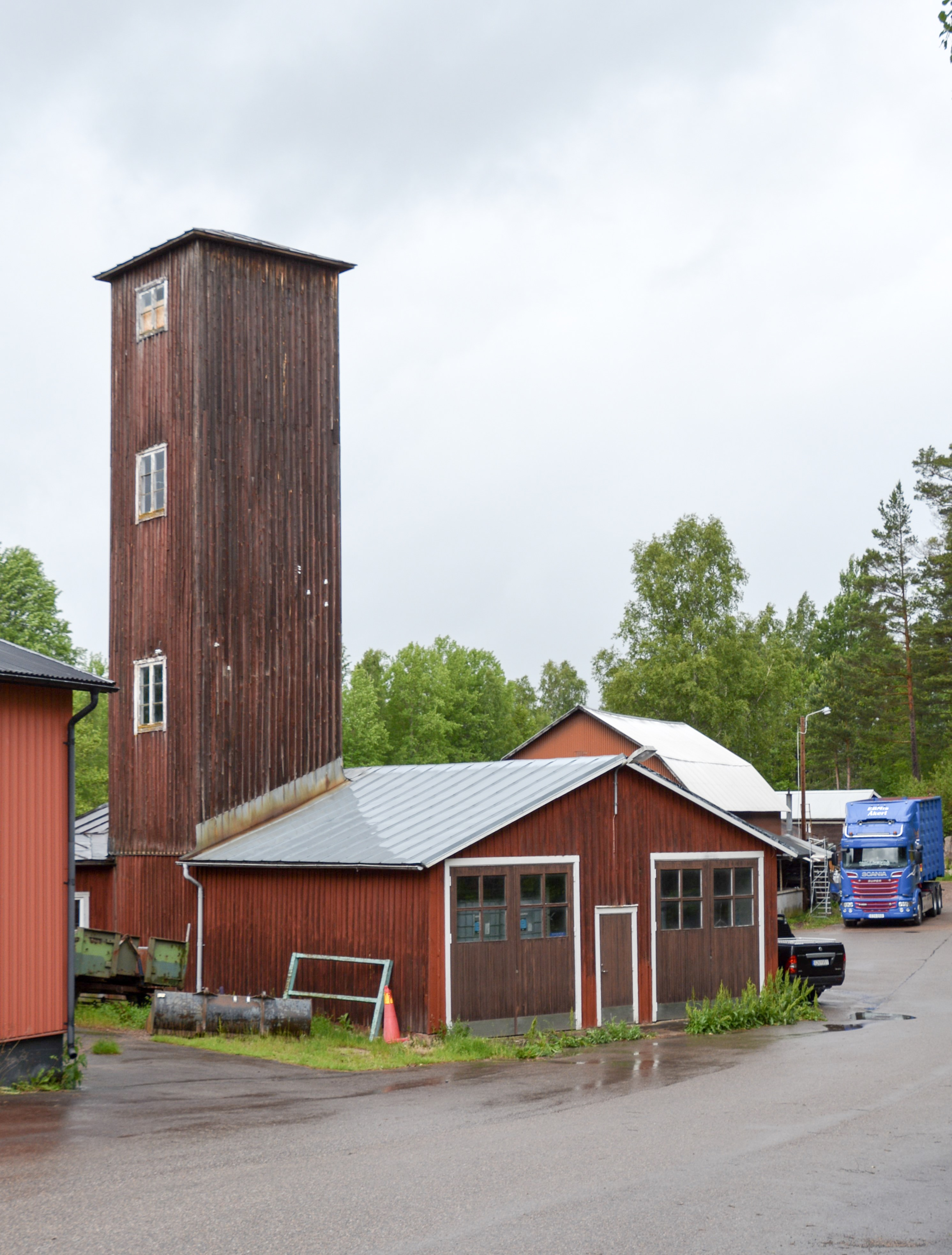 Gamla brandstationen i Kvillsfors